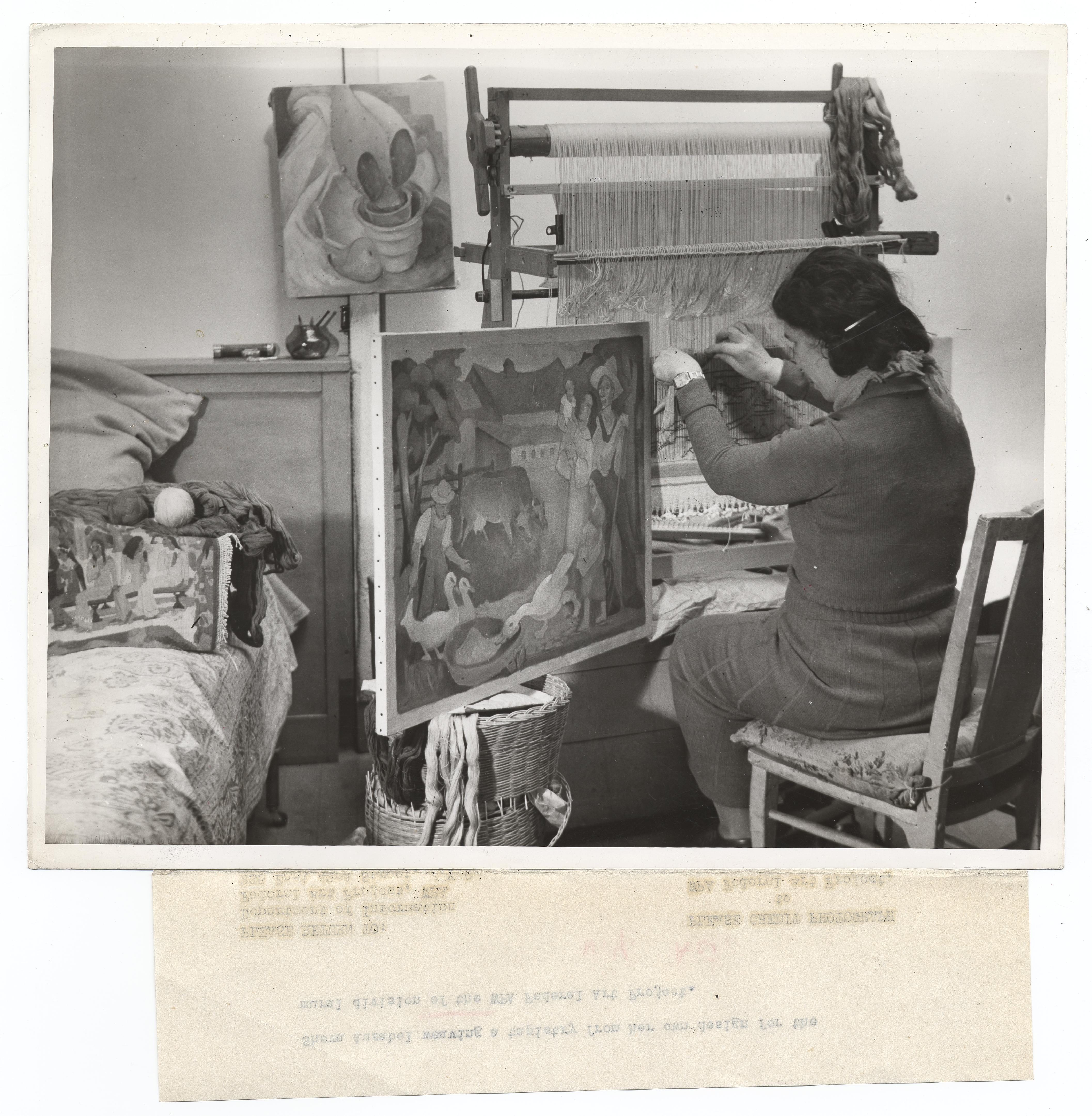 Identification on verso (handwritten and stamped): Federal Art Project W.P.A., Photographic Division, 13 East 37th Street, New York City. Dept of Inform. Location: Sheva Ausabal [sic] Weaving Tapestry 114 iv. 14 sv; Date: 3/30/37; Negative No.: 2167-1, 265-6900-873; Photographer Horn Identification on accompanying label (typewritten): Sheva Ausubel weaving a tapistry [sic] from her own design for the mural division of the WPA Federal Art Project.